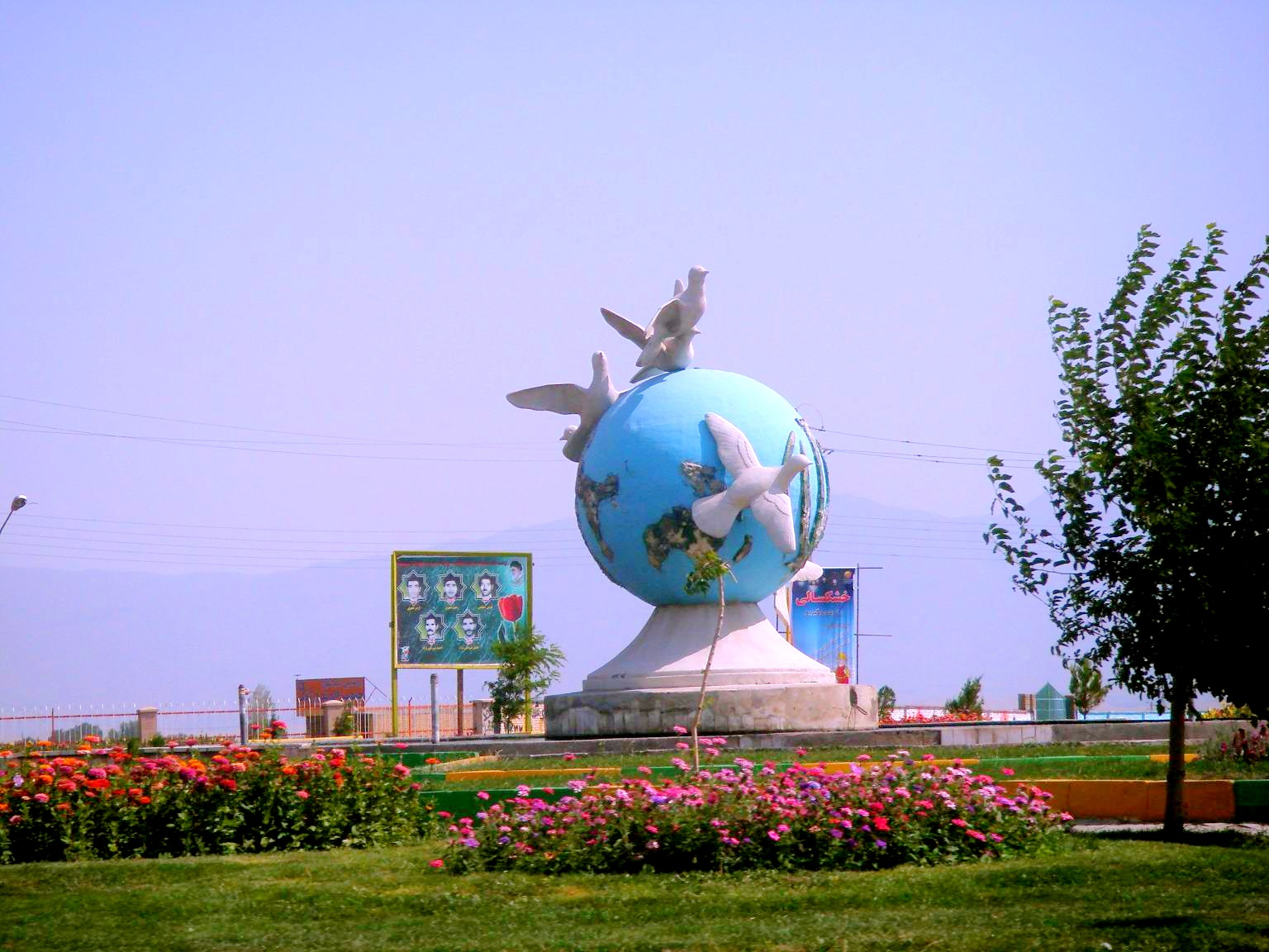 A square Sarab city, East Azerbaijan province.